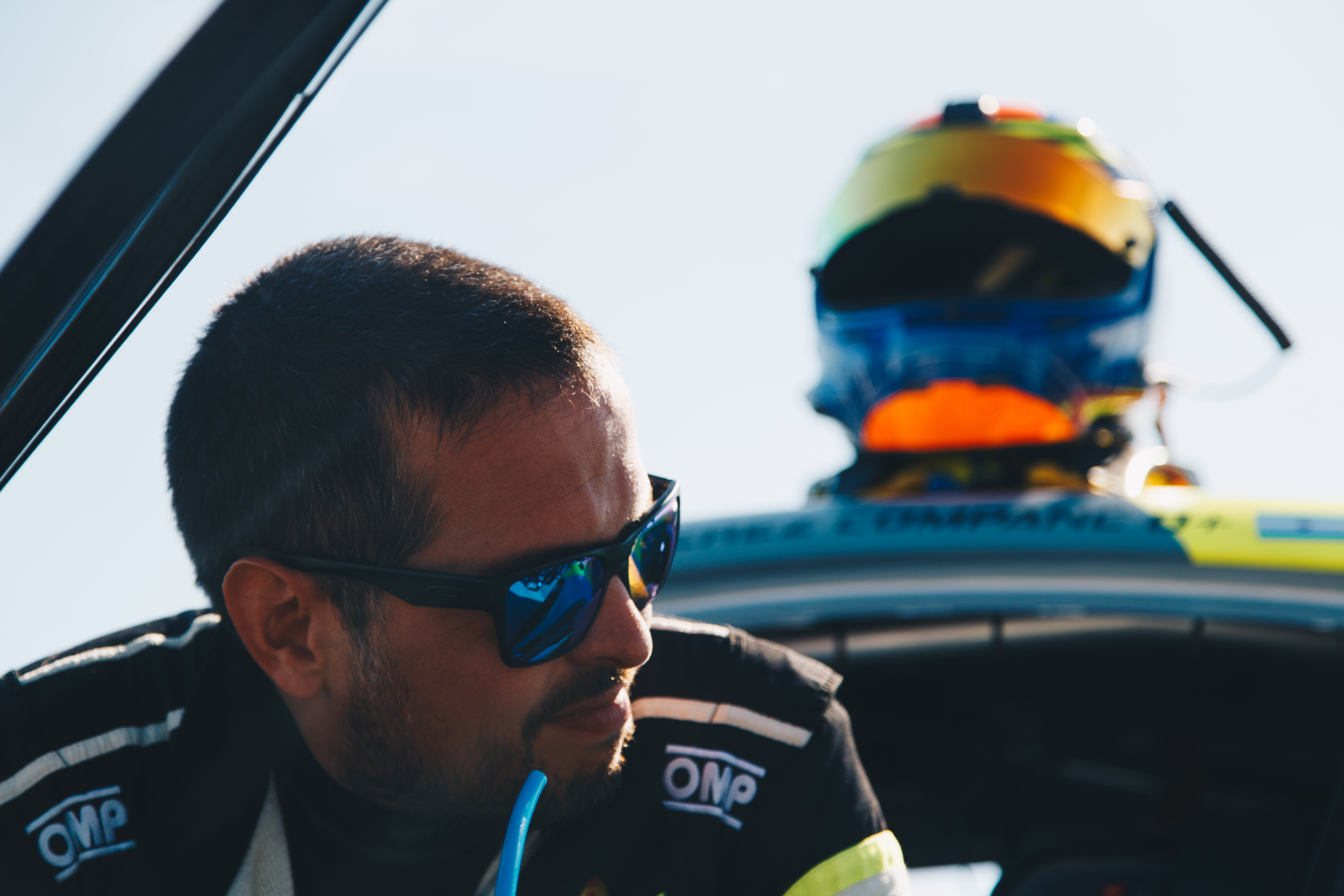 Pablo at round one of the 2017 Pirelli World Challenge in St. Petersburg Florida